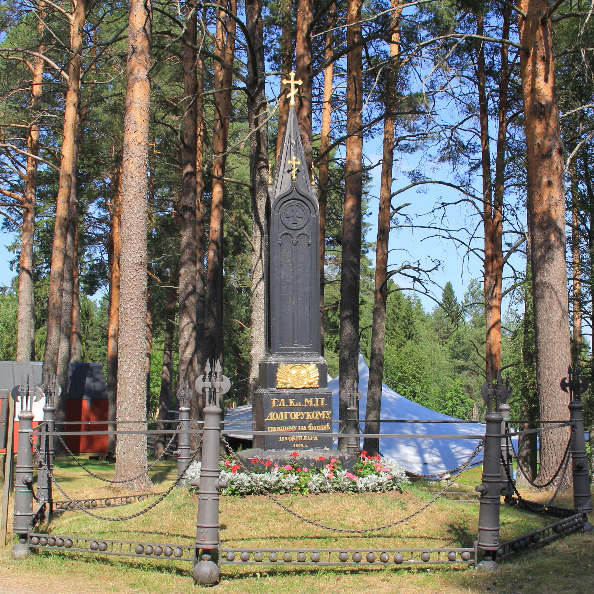 Mikhail Petrovich Dolgorukov memorial, Koljonvirta, Iisalmi, Finland. - Memorial was unveiled in 1848.